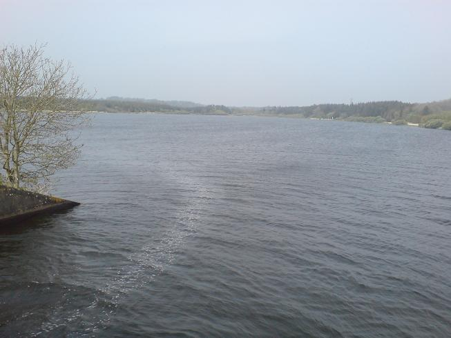 A photo of the eastern half of Llyn Cefni, Anglesey, Wales taken on 7th May 2007 by cls14.